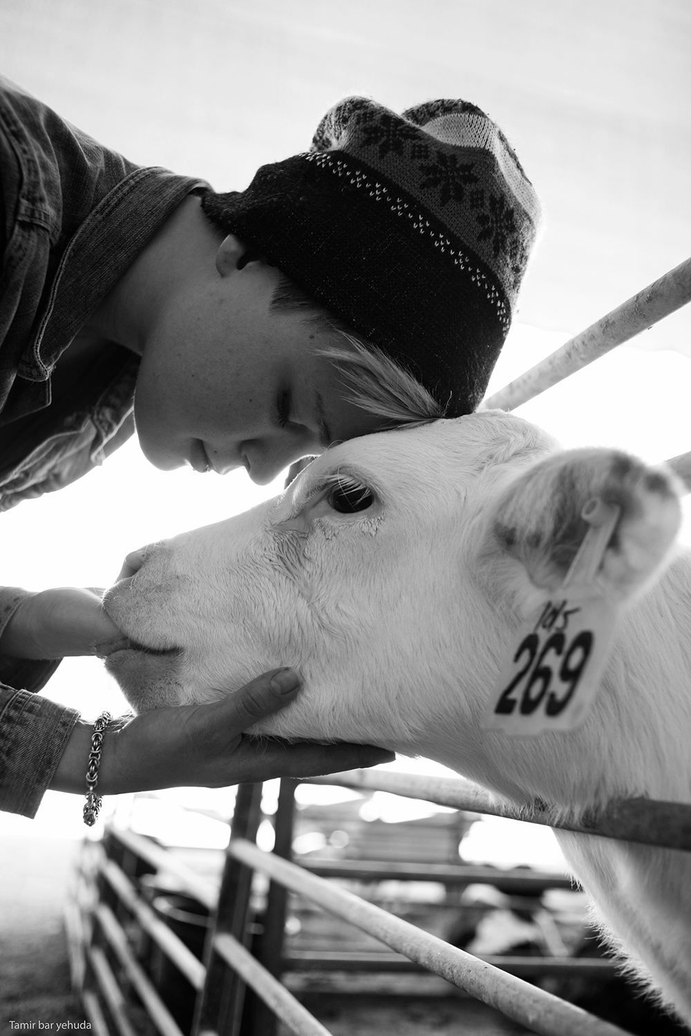 Calf 269 - 269life movement